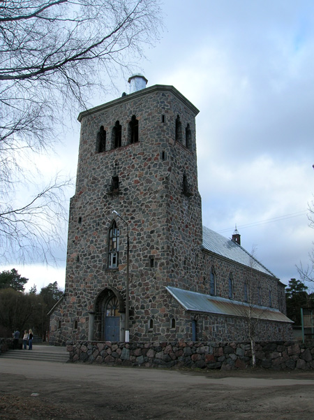 Lutheran church in Priozersk. It has not served a church since 1944, when the city was ceded from Finland to the Soviet Union.